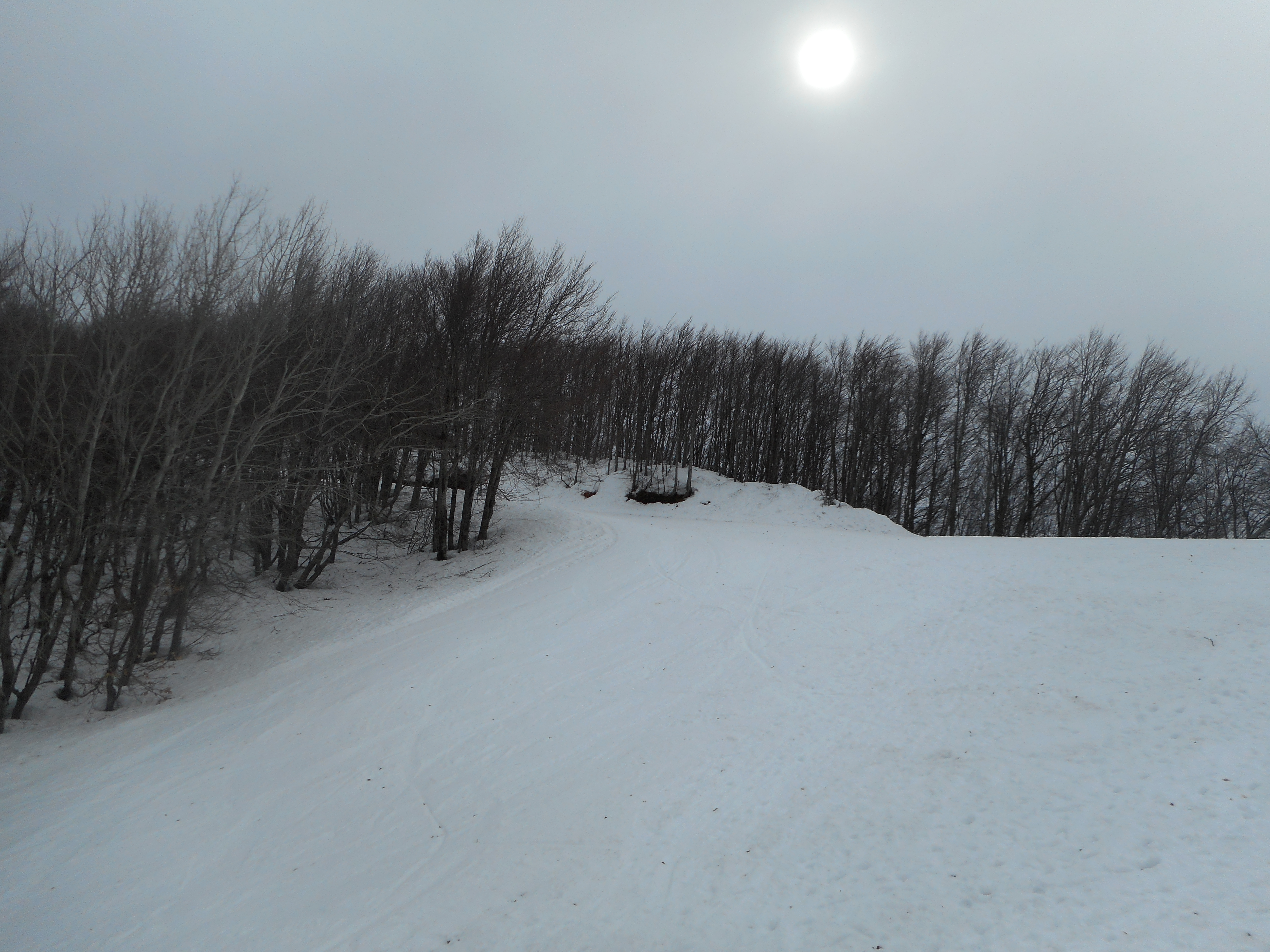 This is a photography of Natura 2000 protected area with ID GR1430001